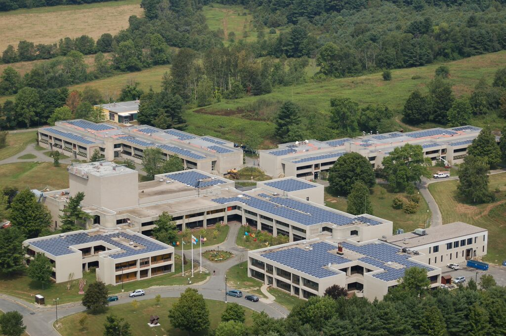 Berkshire Community College's campus on 1350 West Street in Pittsfield, Massachusetts, as seen from above.